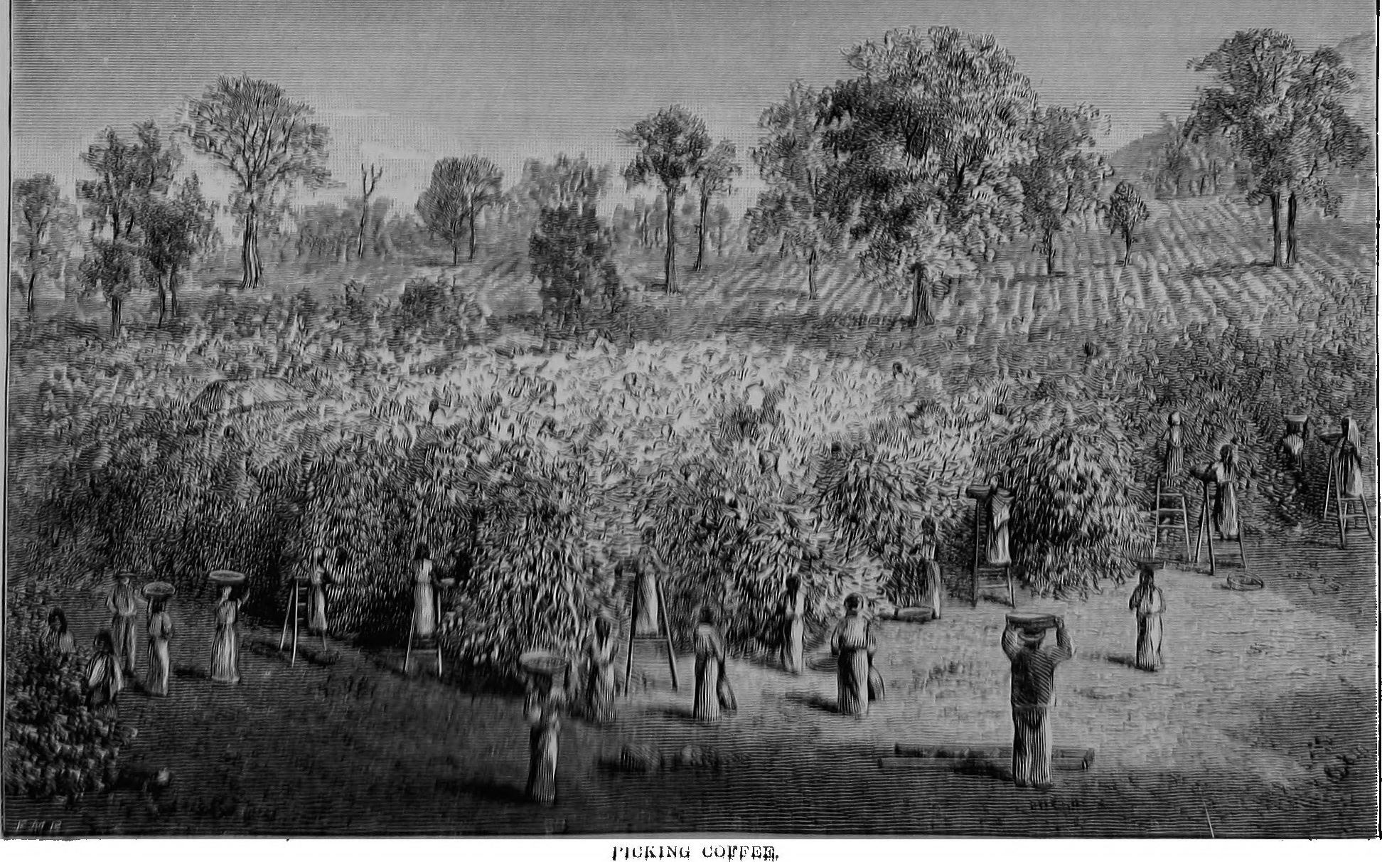 Title: Coffee; from plantation to cup. A brief history of coffee production and consumption. With an appendix containing letters written during a trip to the coffee plantations of the East and through the coffee consuming countries of Europe Year: 1881 (1880s) Authors: Thurber, Francis Beatty, 1842-1907 Subjects: Coffee Publisher: New York, American grocer publishing association Text Appearing Before Image: ' Text Appearing After Image: '